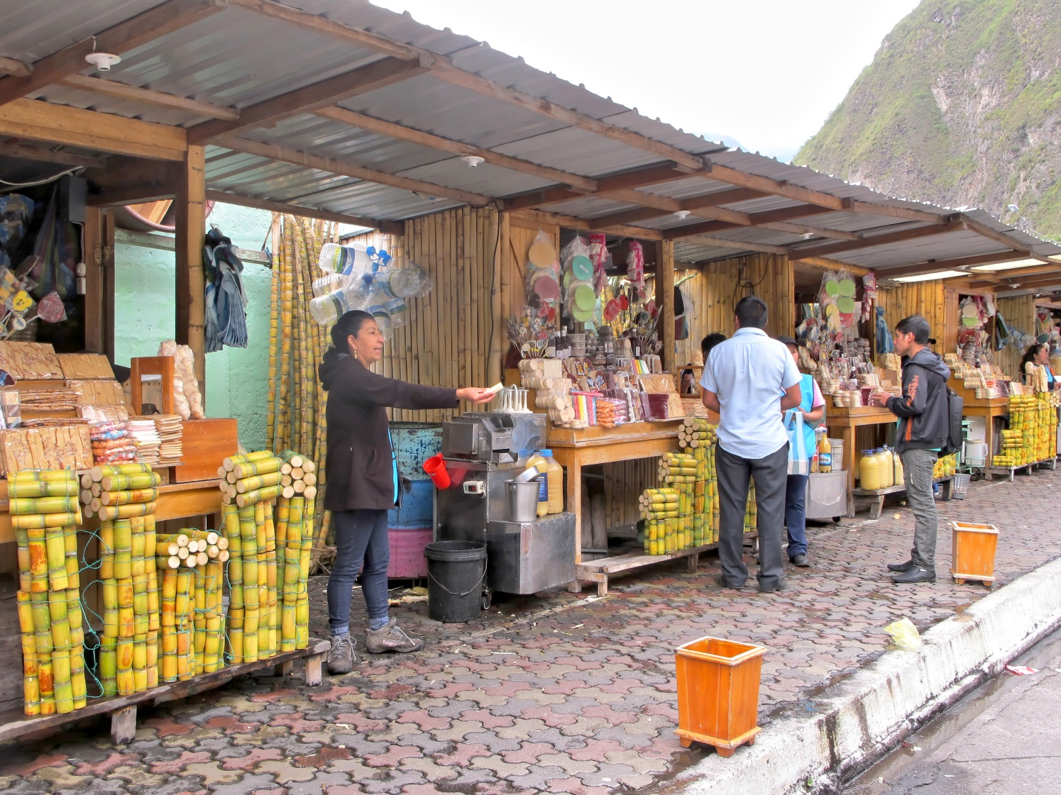 Sugarcane and Sweets